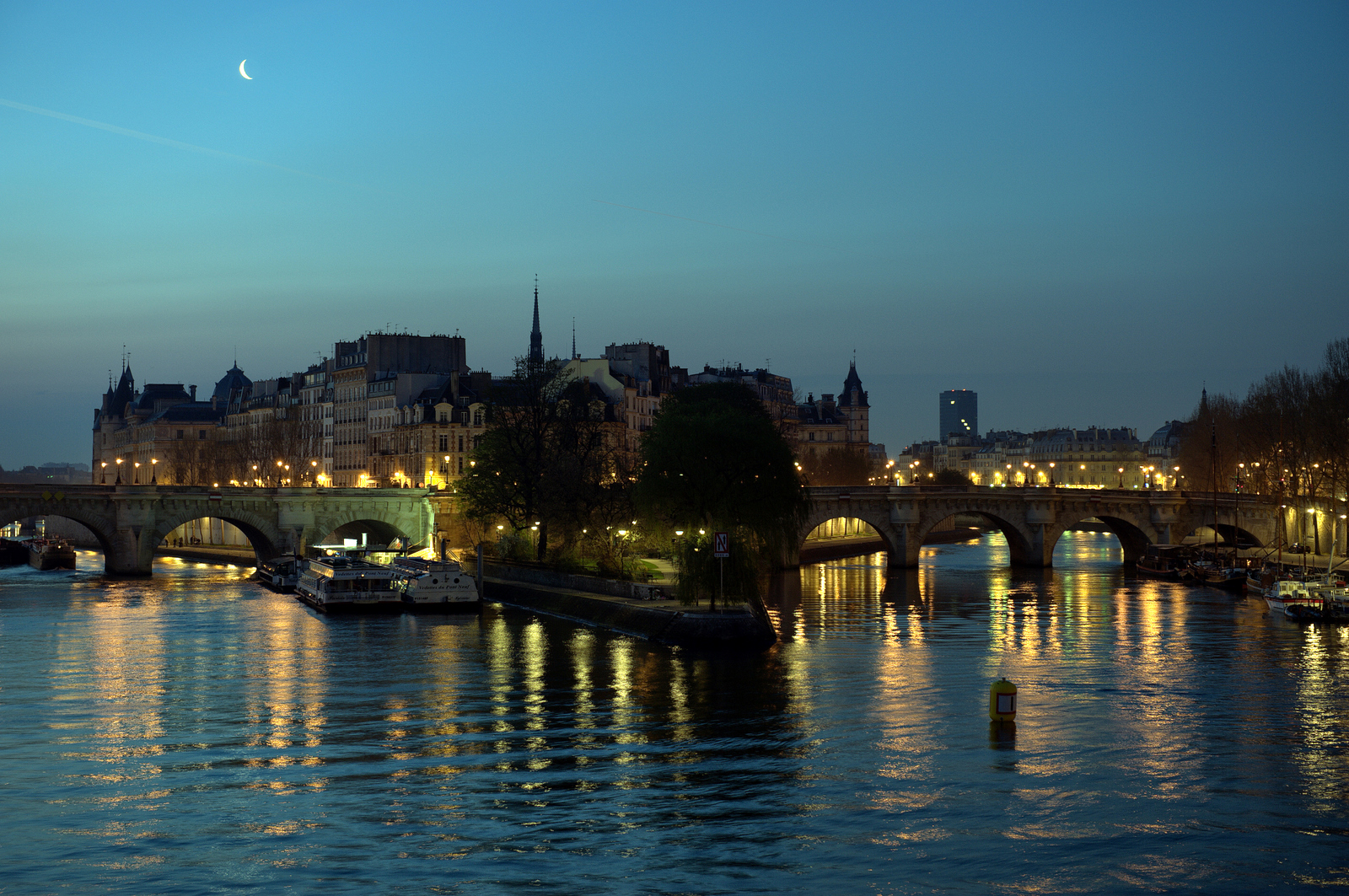 The Île de la Cité view from The Pont des Arts. The Île de la Cité is one of two natural islands in the Seine within the city of Paris (the other being Île Saint-Louis, the Île aux Cygnes being artificial). It is the centre of Paris and the location where the medieval city was refounded